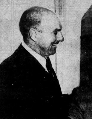 Basketball coach Alex Hannum